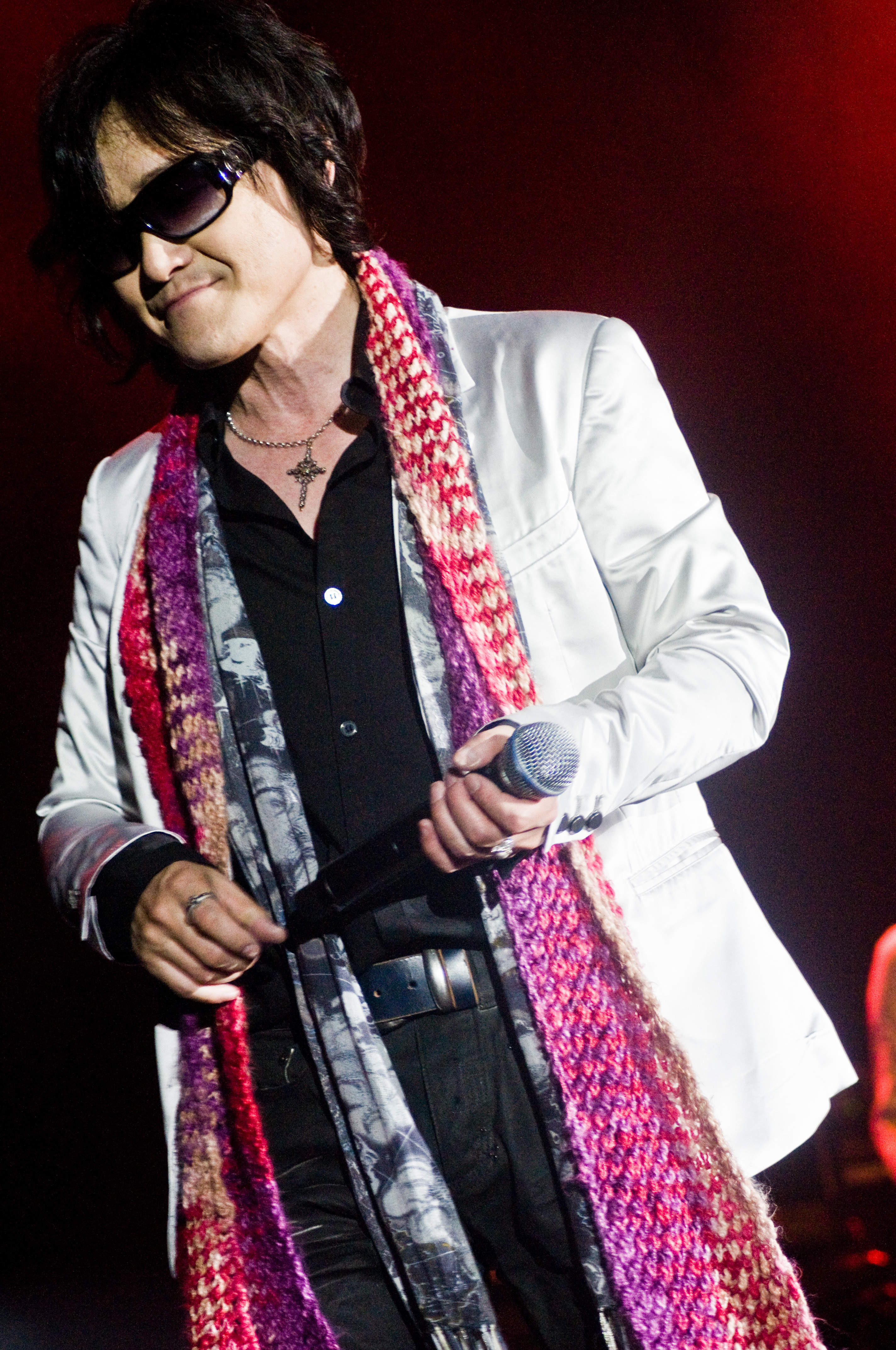 Toshimitsu "Toshi" Deyama in Brazil.